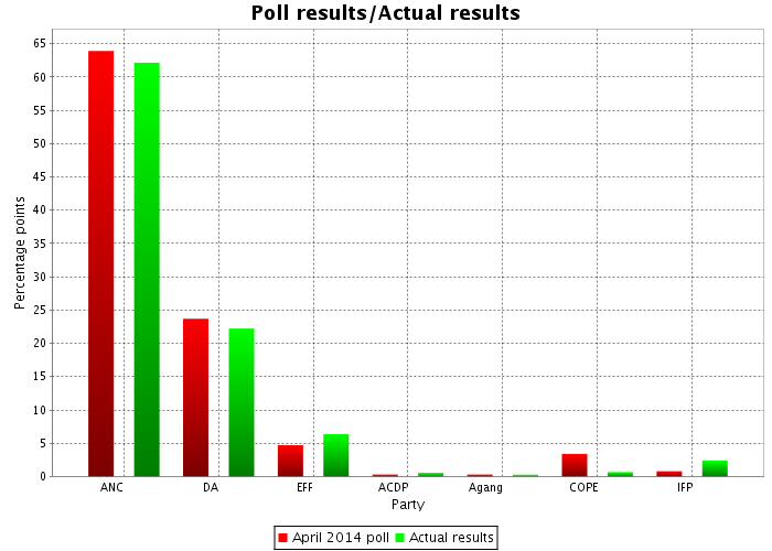 A barchart made with that shows the difference between an pre-election poll and the actual election results.